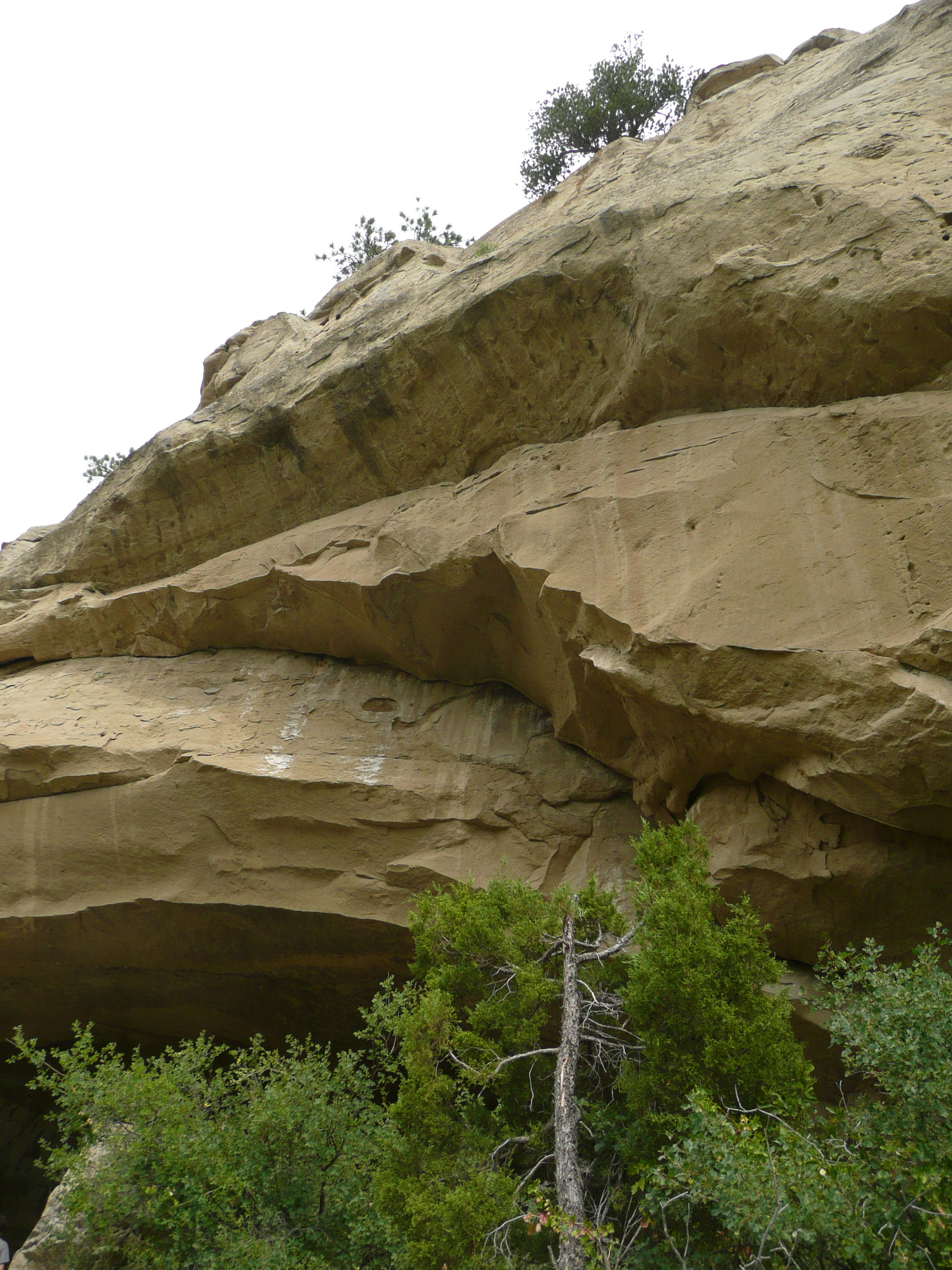 Pictograph Cave